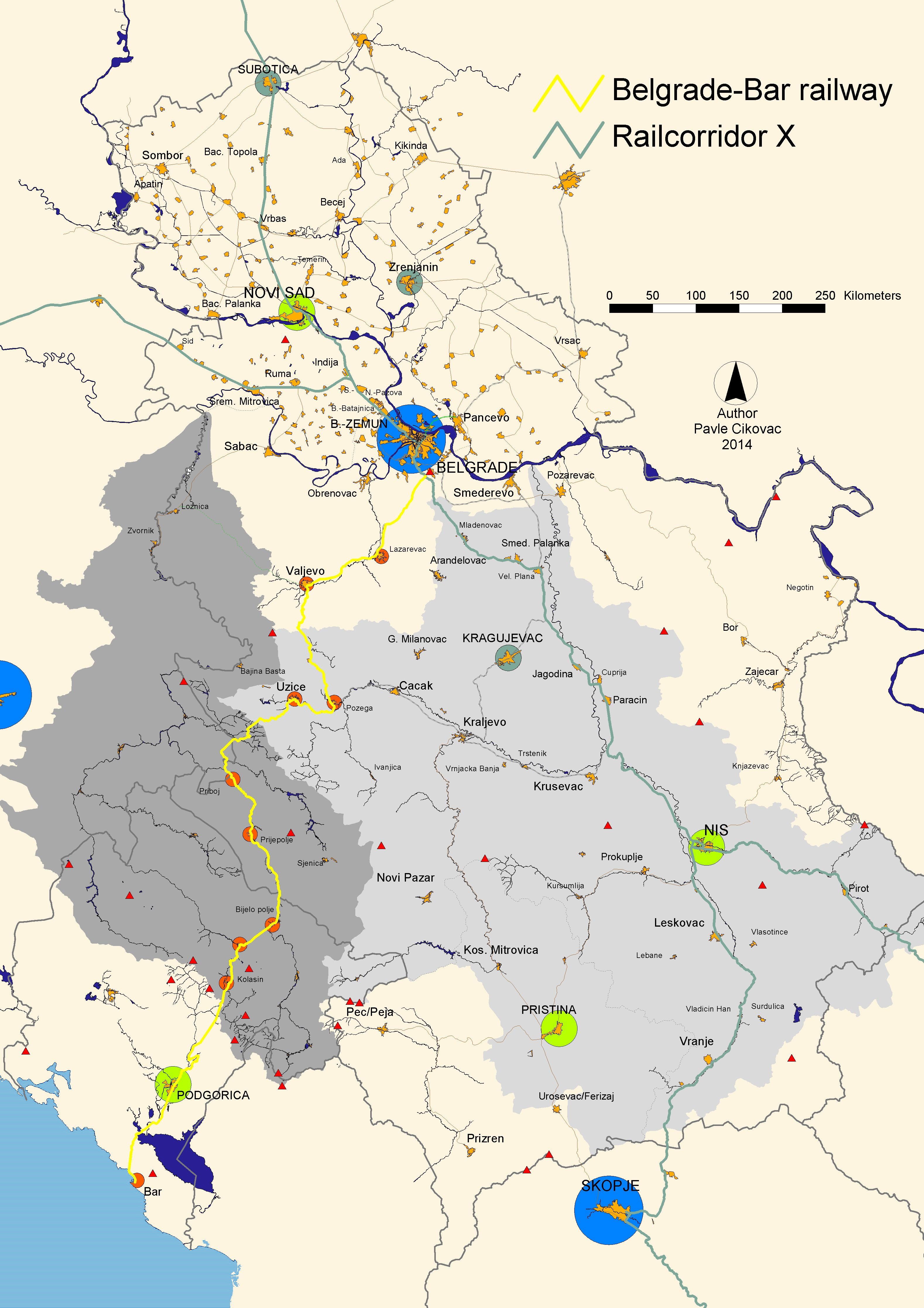 Belgrade-Bar railway